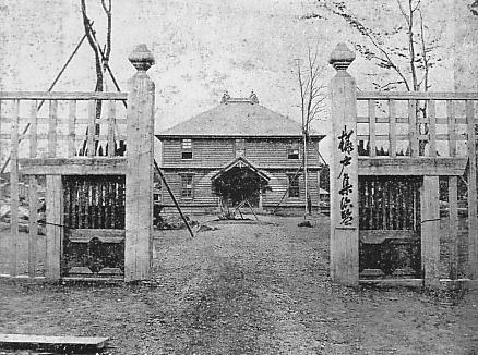 Kabato Shujikan (Kabato Prison) in the Meiji era